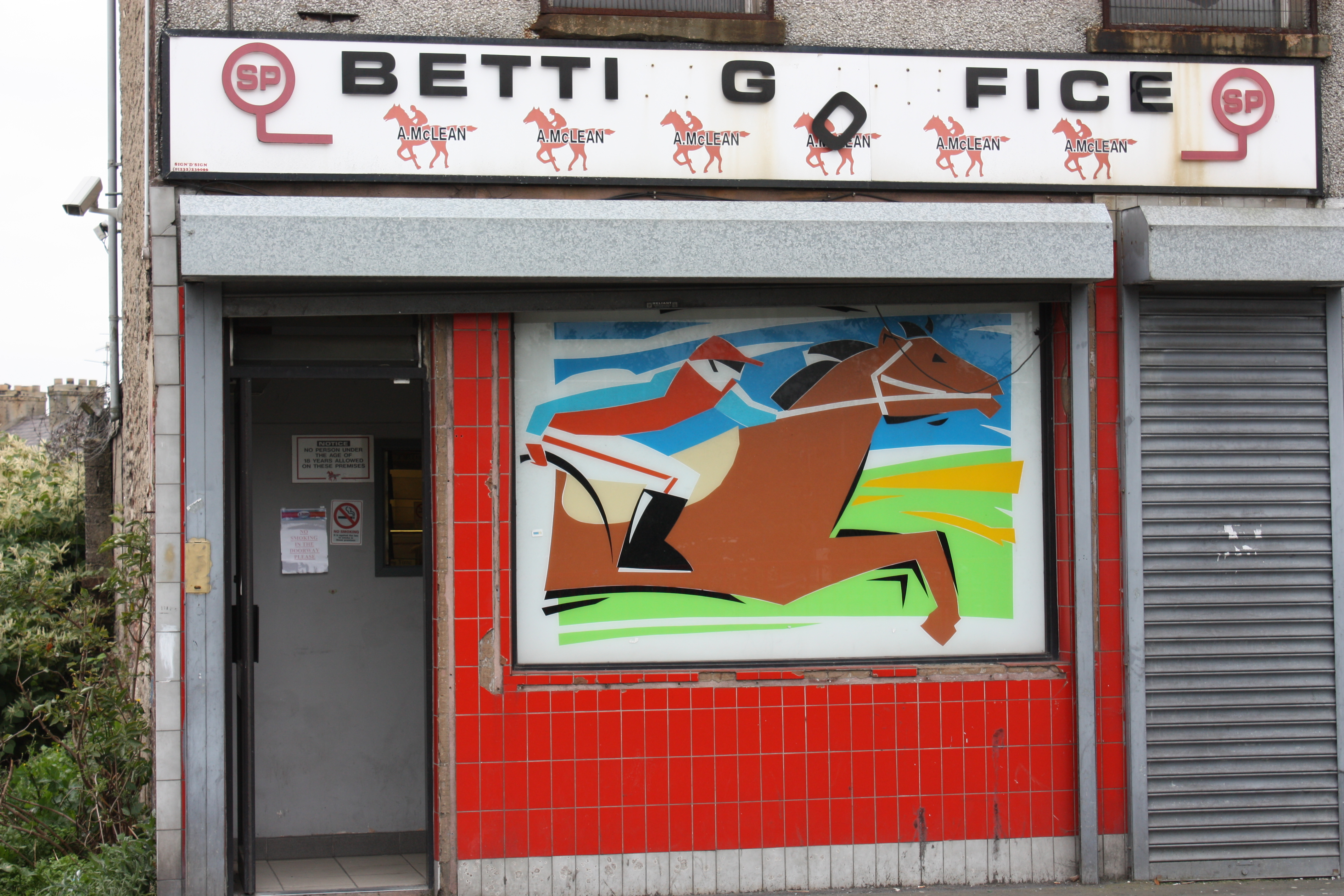 Betting office, West Street, Portadown, County Armagh, Northern Ireland, September 2009